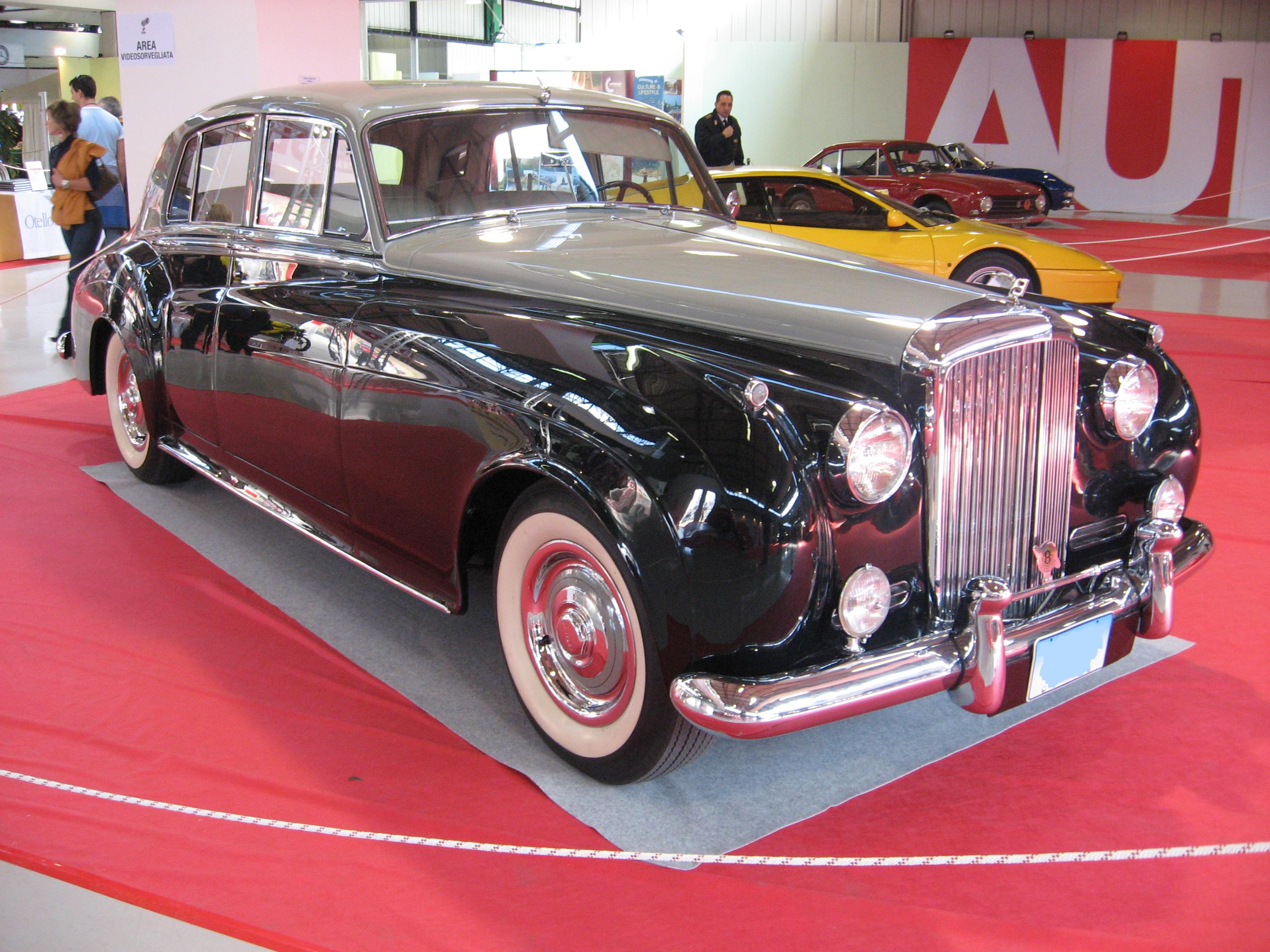 Subject: Bentley S1 Author: Luc106 Date: 18th march 2007 Place: Forlì (Italy) Event: Old Time Show I release all rights in the public domain.